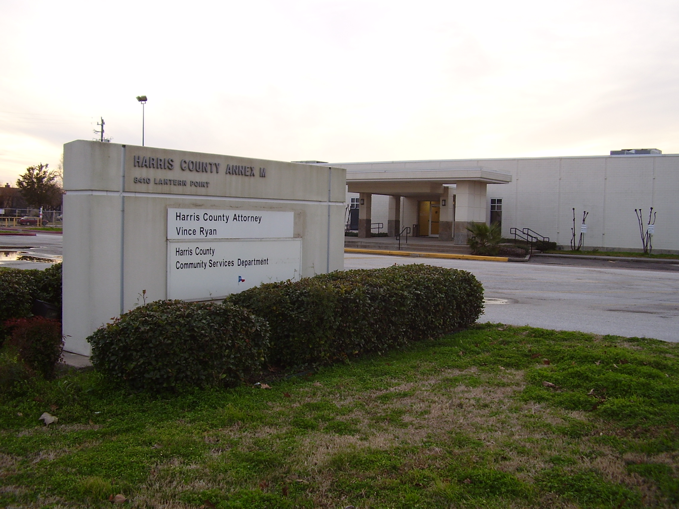 Harris County Annex M - 8410 Lantern Point entrance - Contains the Harris County Attorney and Harris County Community Services Department (this section has the headquarters of the Harris County Transit)